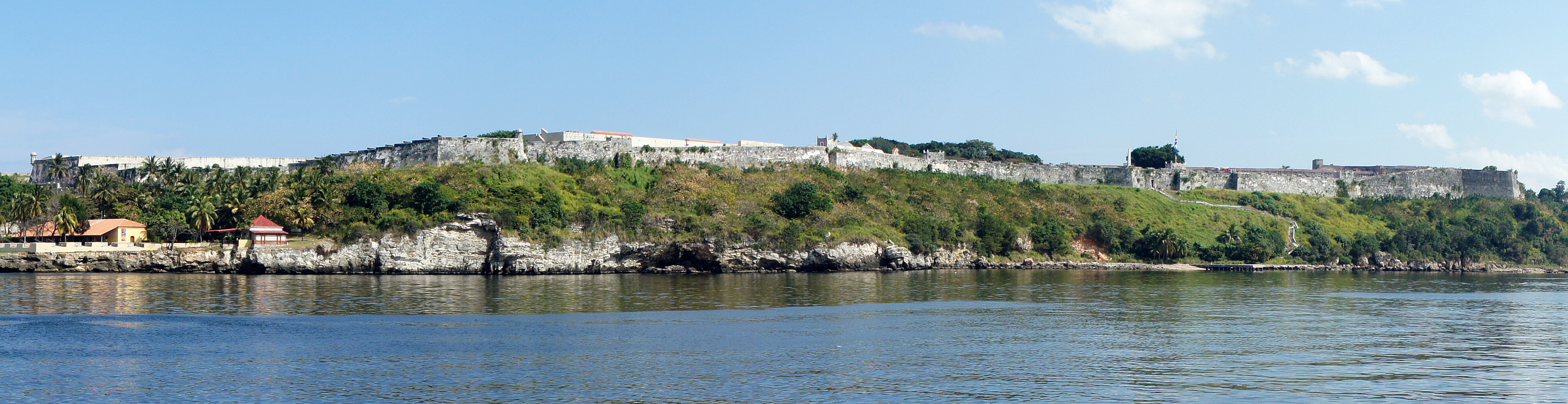 Panoramic view of Fortaleza de San Carlos de la Cabaña, Havana, Cuba.